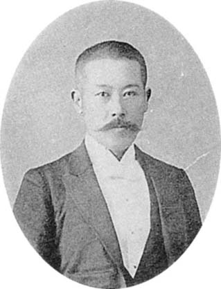 S. Katsushima, Professor of Veterinary Medicine & Surgery.